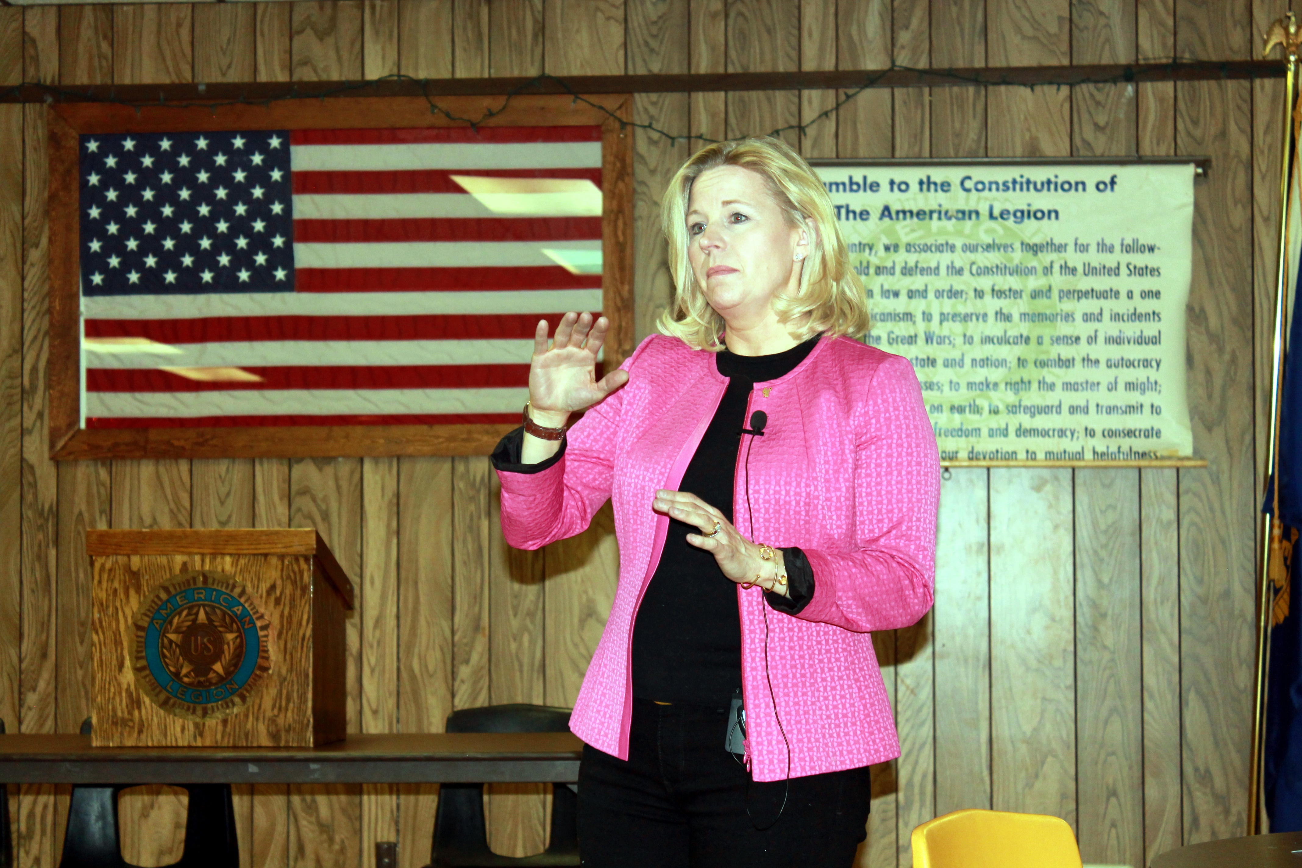 Liz Cheney speaks to a small crowd at the American Legion in Buffalo, Wyoming. The picture was taken on October 26, 2013.